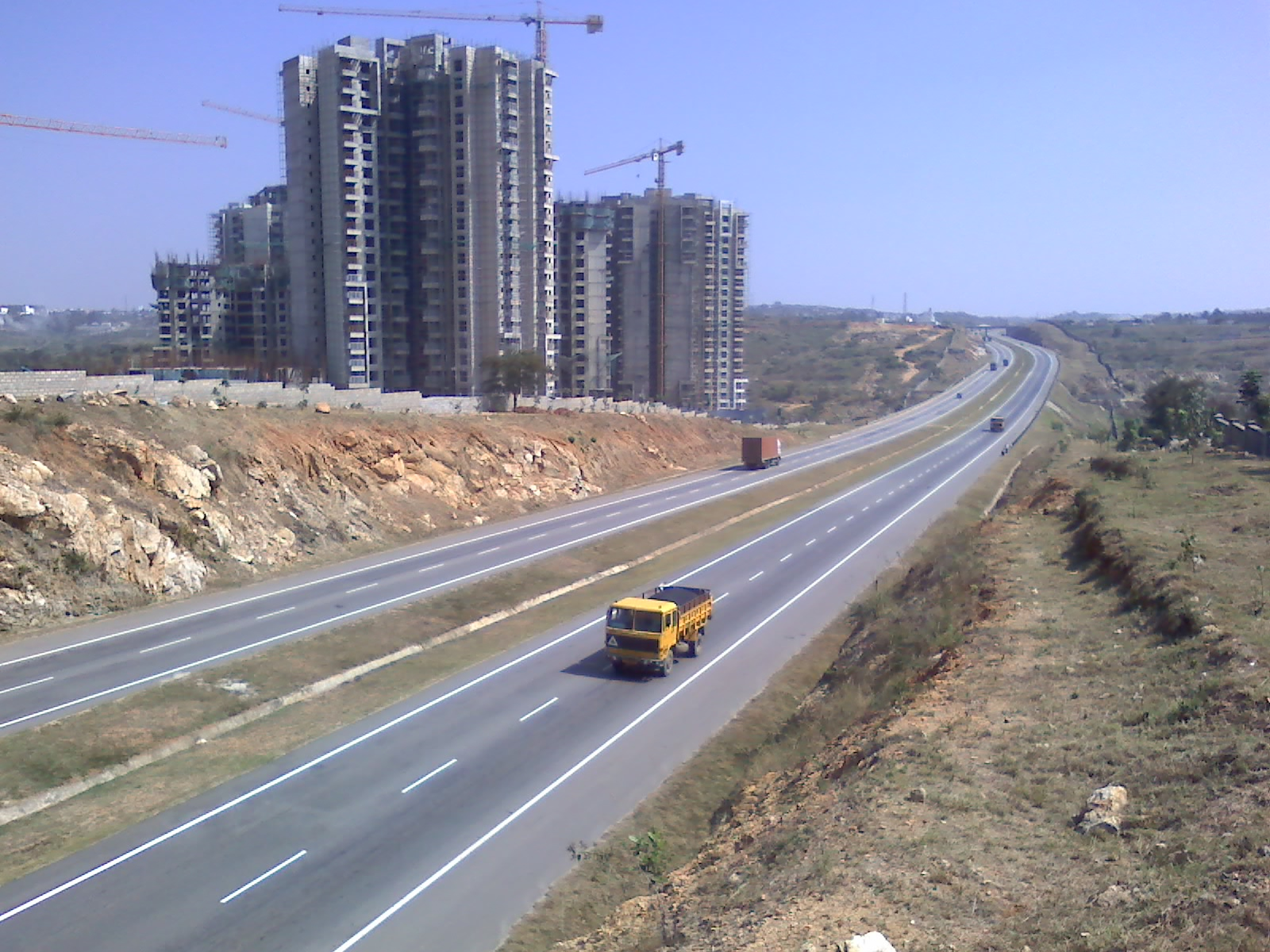 BMIC PRR at Mallasandra.